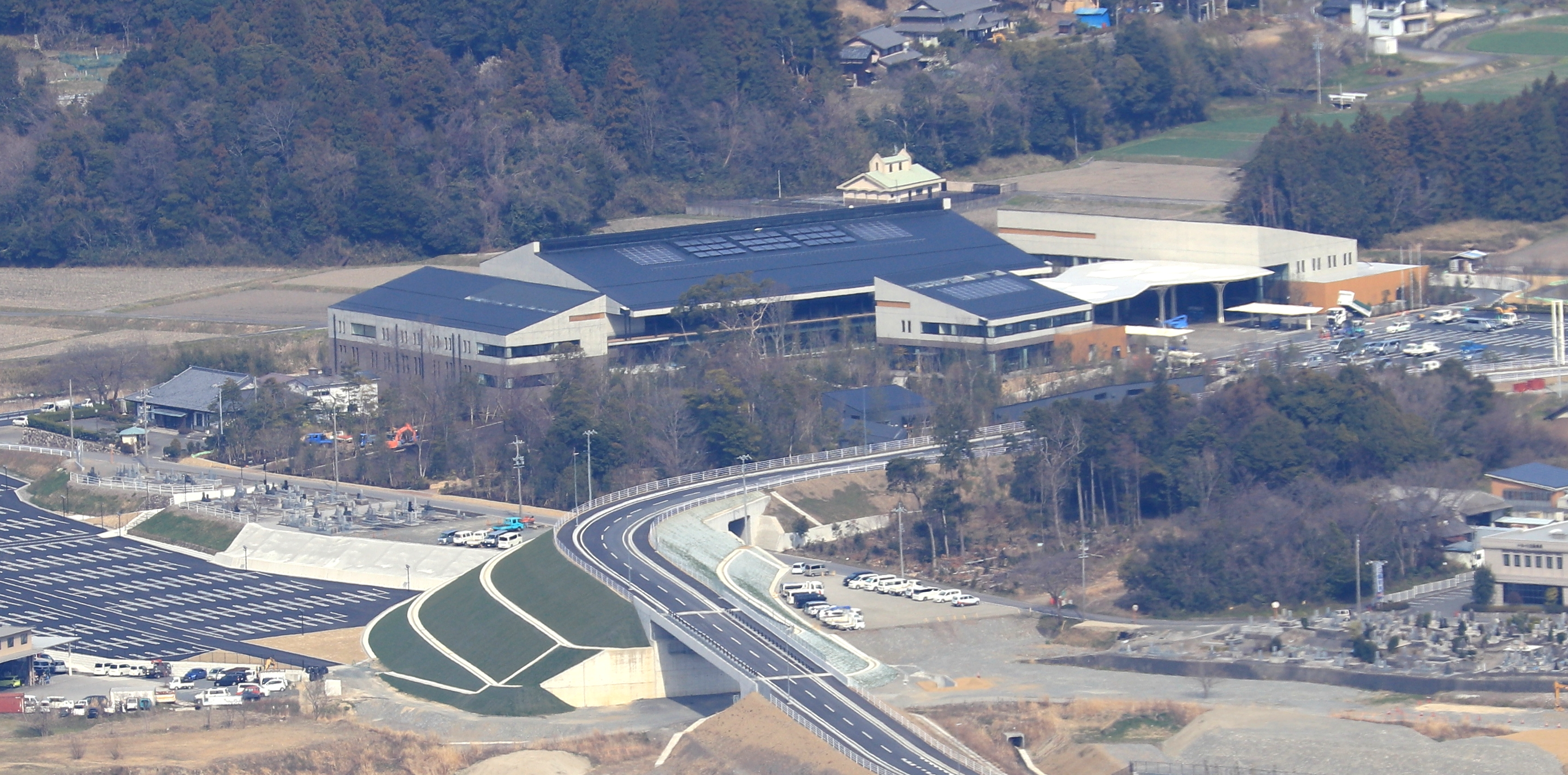 Inabe City Hall seen from Mount Fujiwara, Suzuka Mountains in Inabe, Mie Prefecture, Japan. Canon EOS Kiss X9